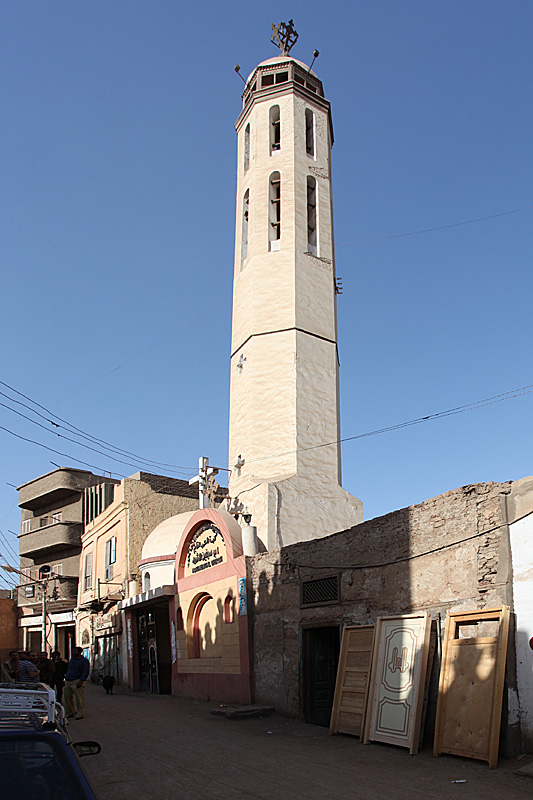 Entrance of the church of St. Paul and Anthony, church of Abū Seifein in Akhmim, Egypt